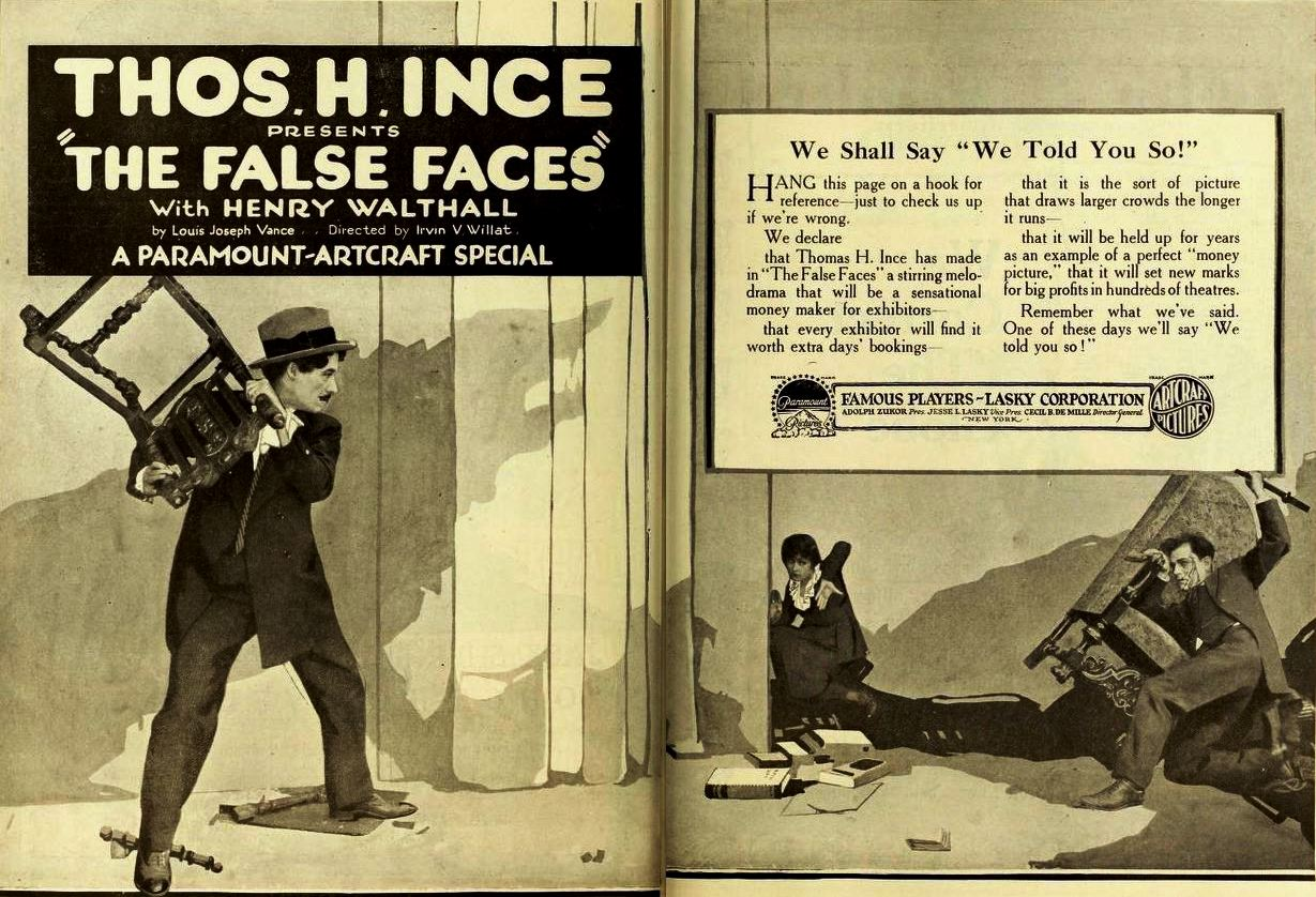 Ad for the American film The False Faces (1919) with Henry B. Walthall, on pages 976 and 977 of the February 22, 1919 Moving Picture World. Walthall portrays the "Lone Wolf" hence the shadow behind him in the ad.